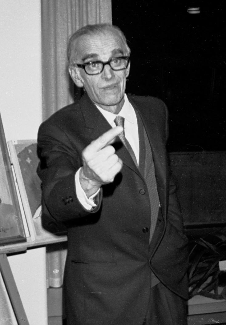 Ostrobothnian (Finland) painter Oiva Polari talks in a vernissage of his works, Ilmajoki, Finland, 1974.